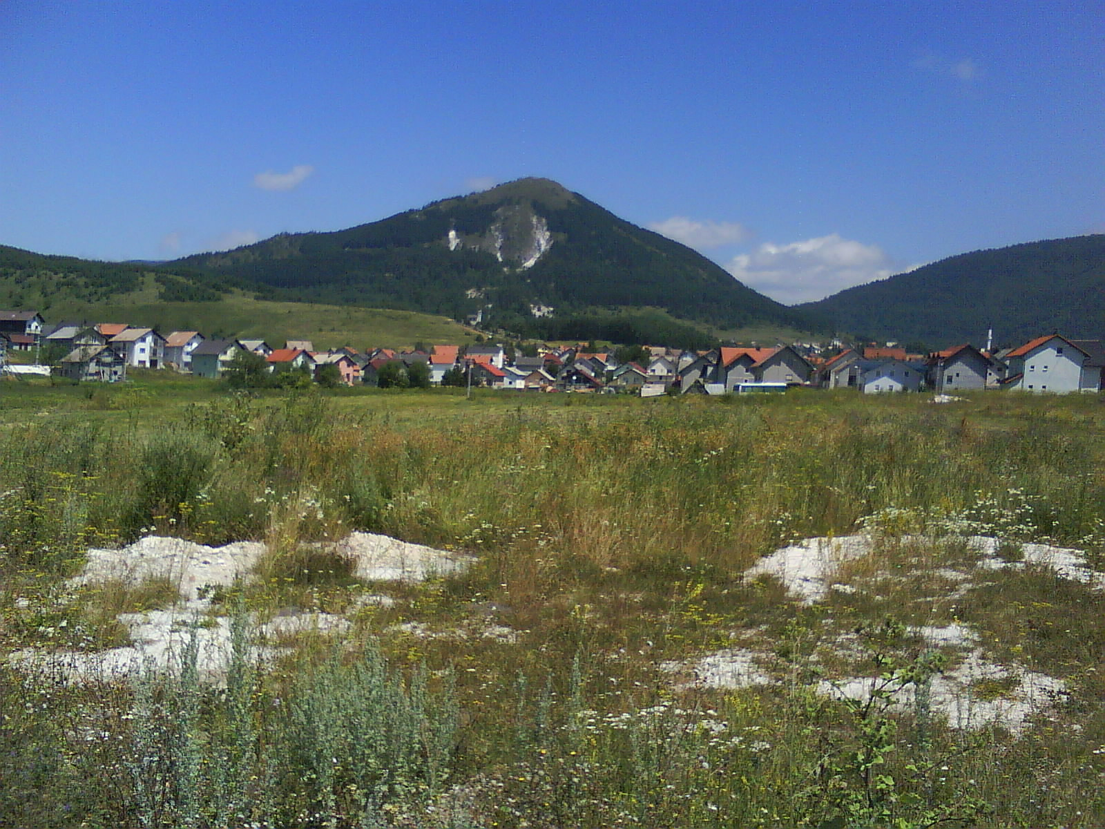 Landscapes outside Kupres